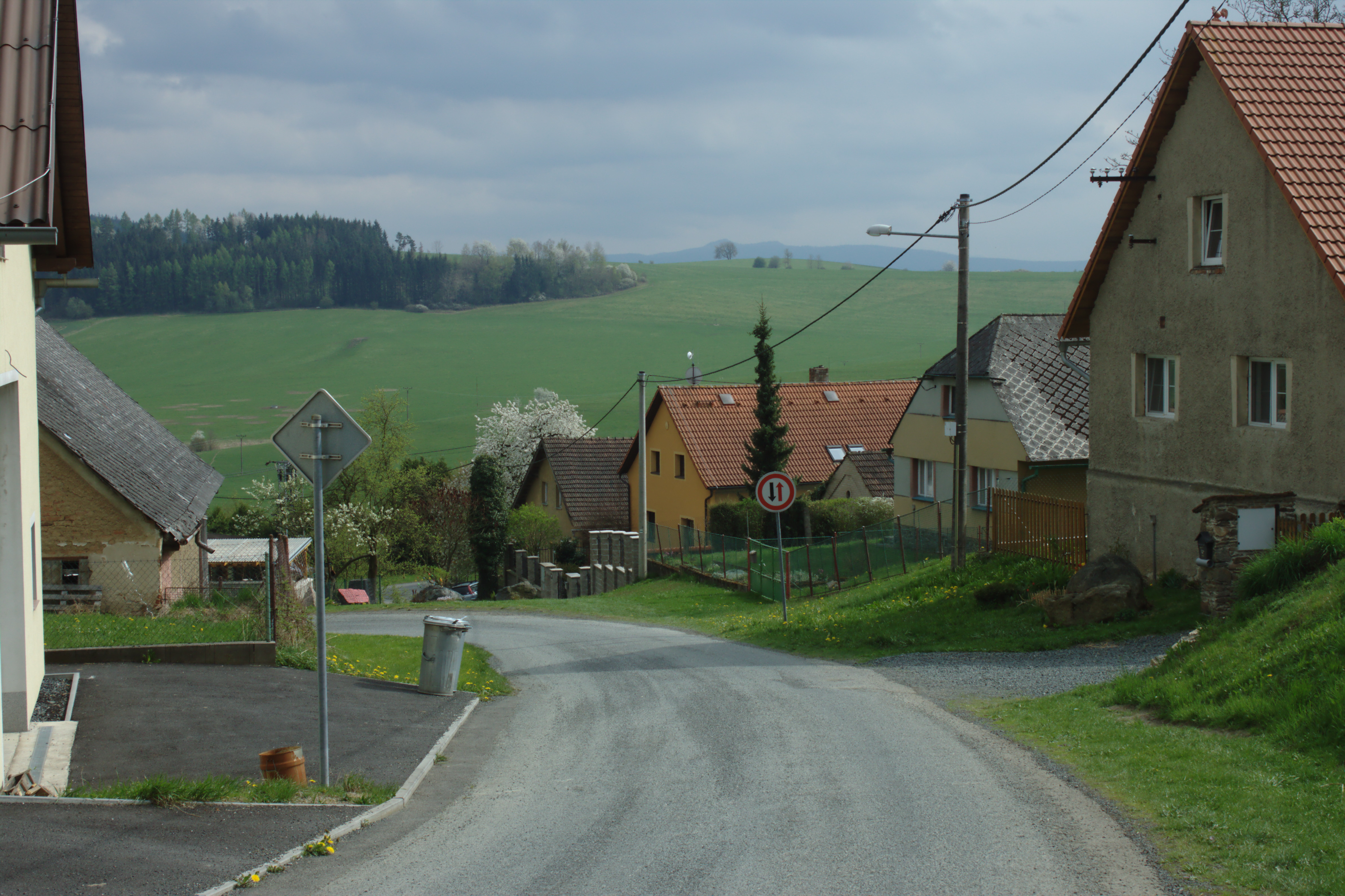 Buildings in the village of Starec near Kdyně, Plzeň Region, CZ